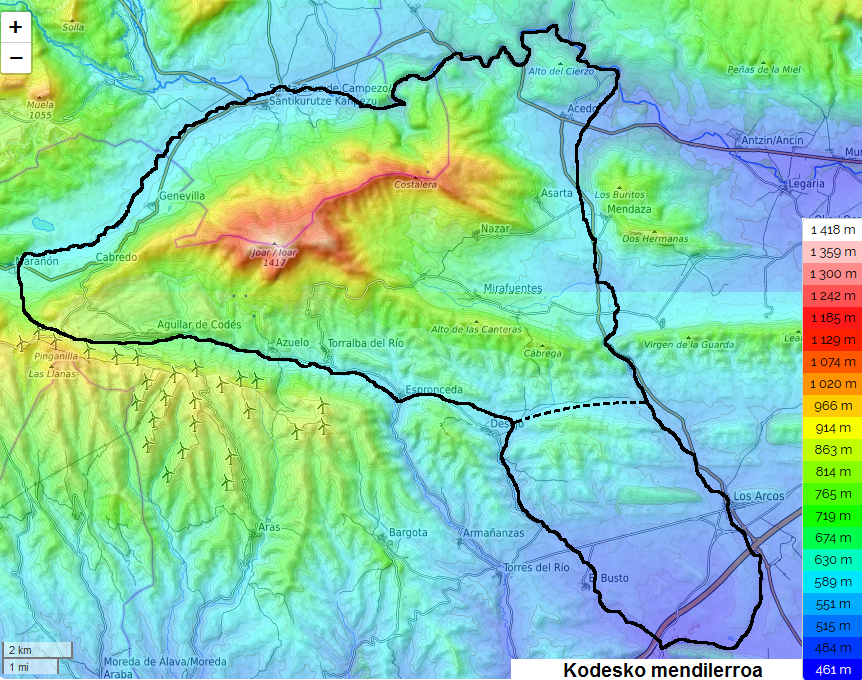 Topographic map showing the Kodes Range.